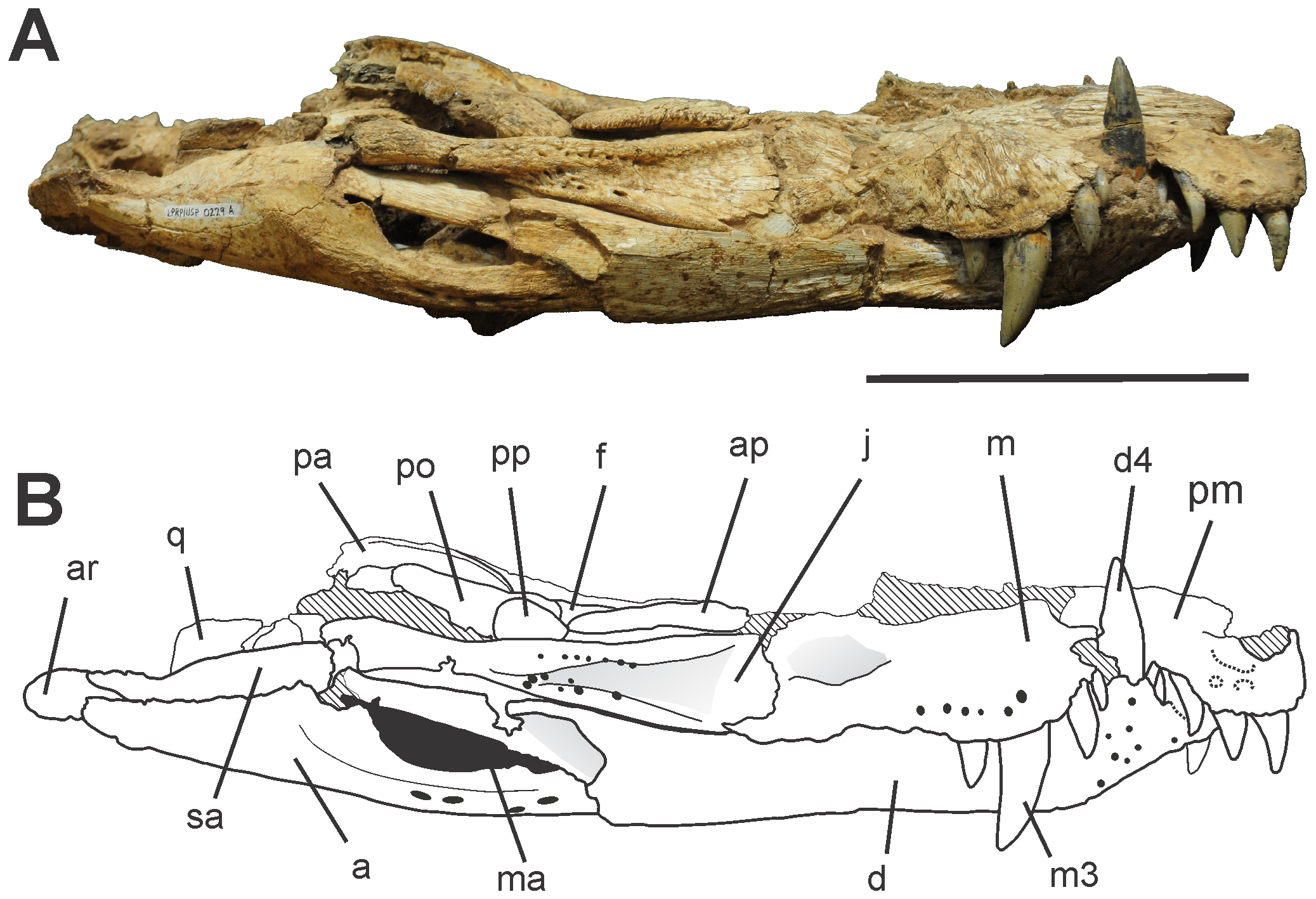 Skull of Aplestosuchus sordidus LPRP/USP 0229a in lateral (right) view. A, photograph. B, interpretative drawing. Abbreviations: a, angular; ap, anterior palpebral; ar, articular; d, dentary; d4, dentary tooth 4; f, frontal; j, jugal; m, maxilla; ma, mandibular fenestra; m3, maxillary tooth 3; pa, parietal; pm, premaxilla; po, postorbital; pp, posterior palpebral; q, quadrate; sa, surangular. Scale bar equals 10 cm.